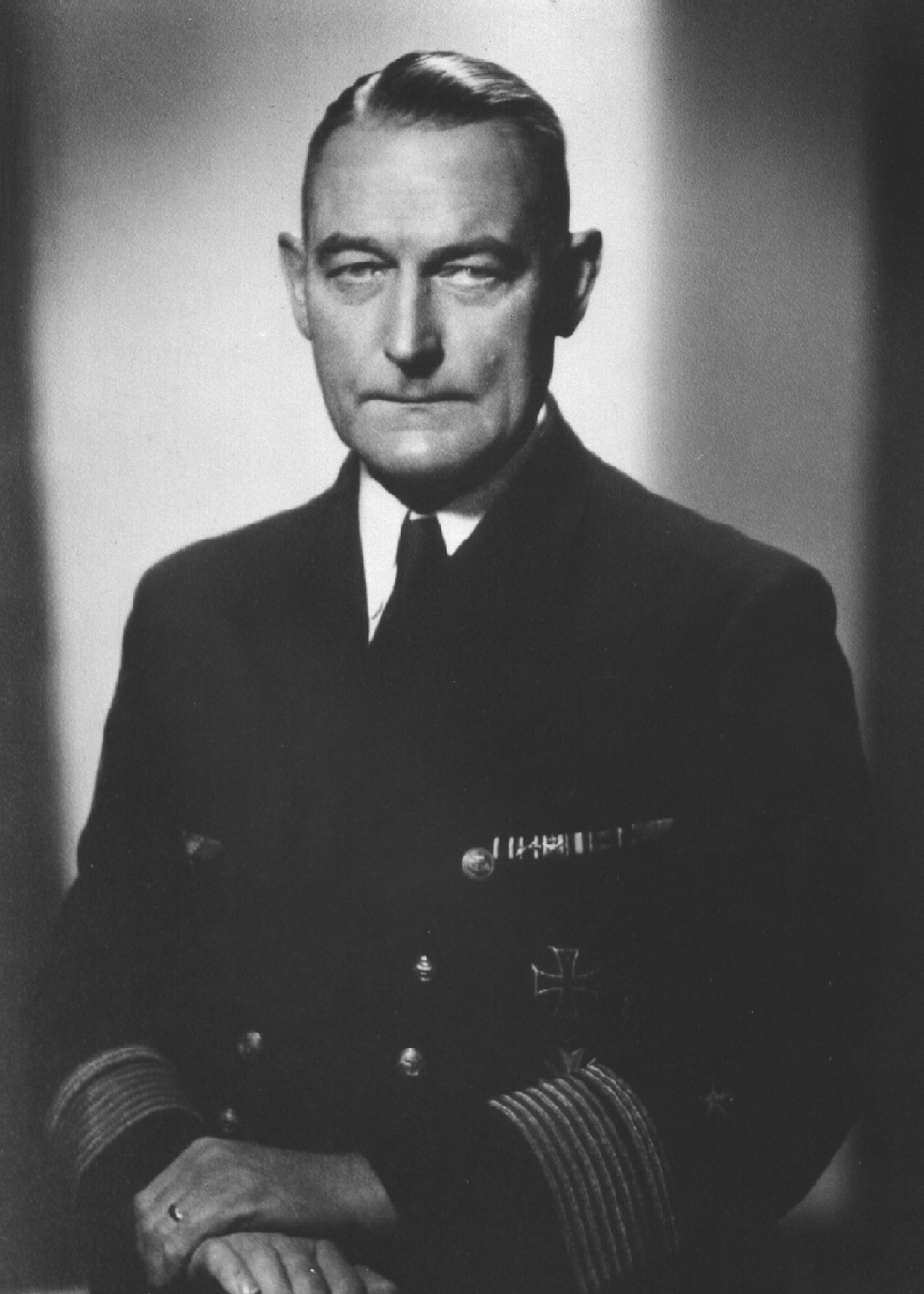 picture of Dr. phil. Fritz Conrad, Rear Admiral of the German Navy